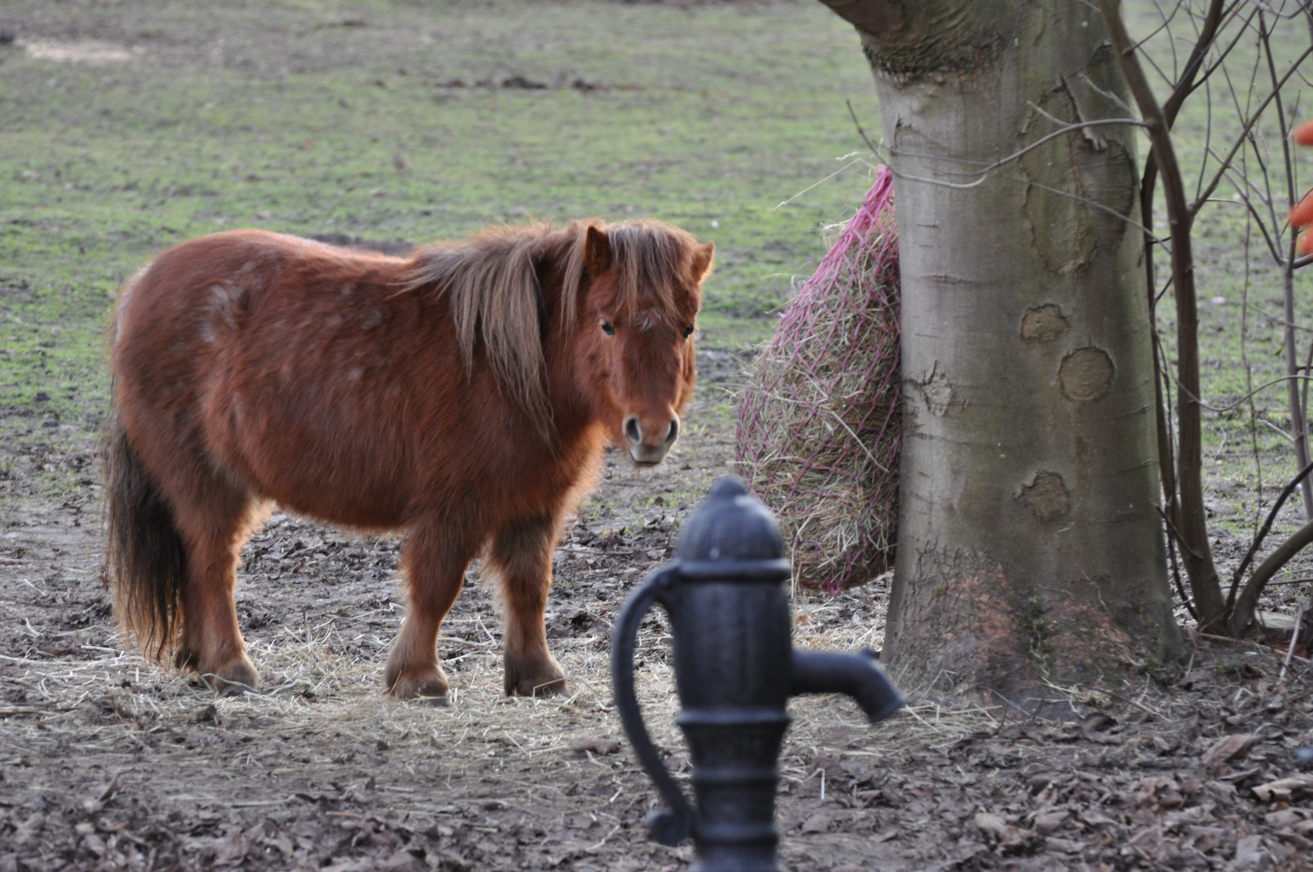 Shetland Pony